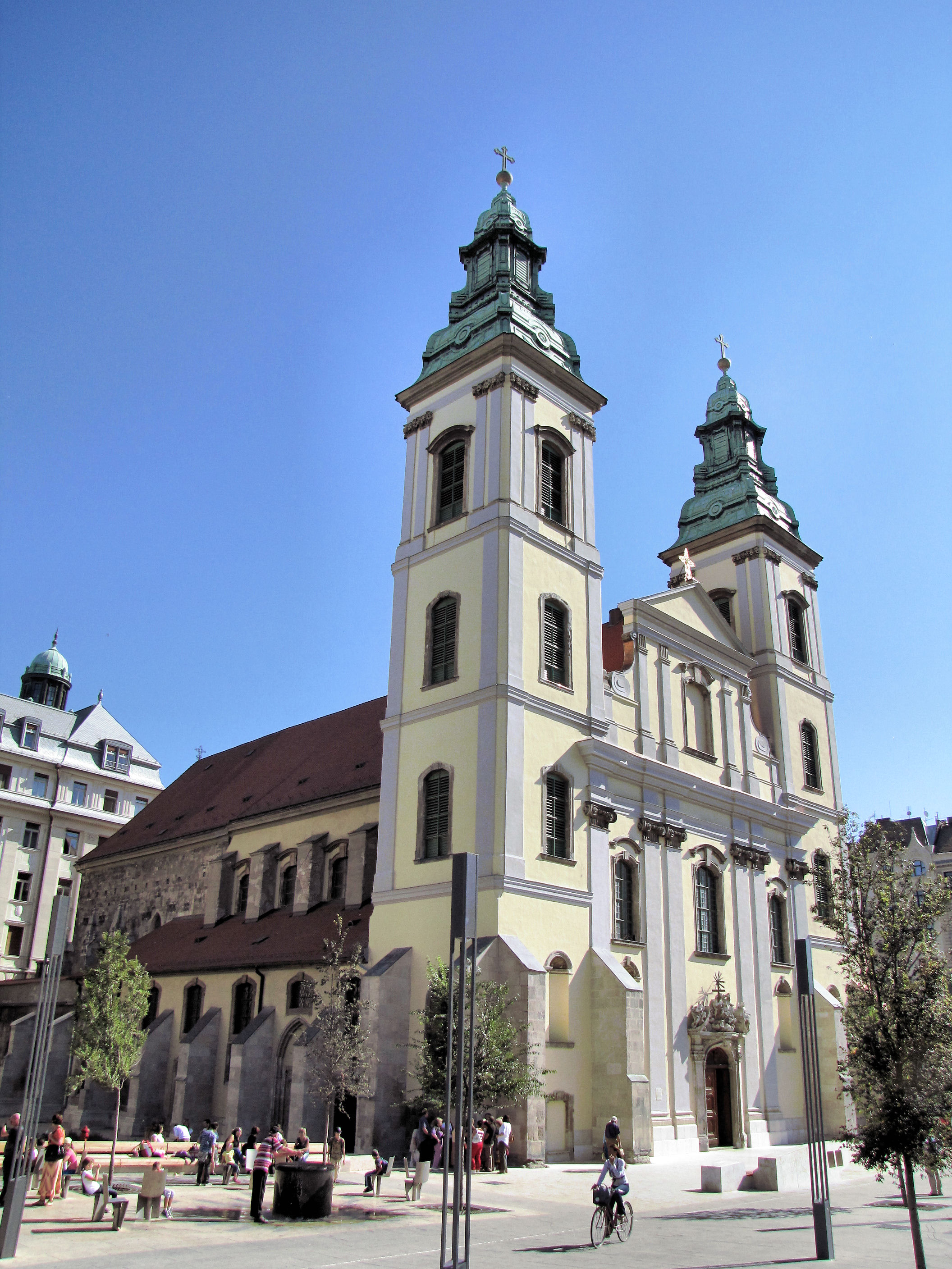 Inner City Parish Church, Budapest, Hungary.